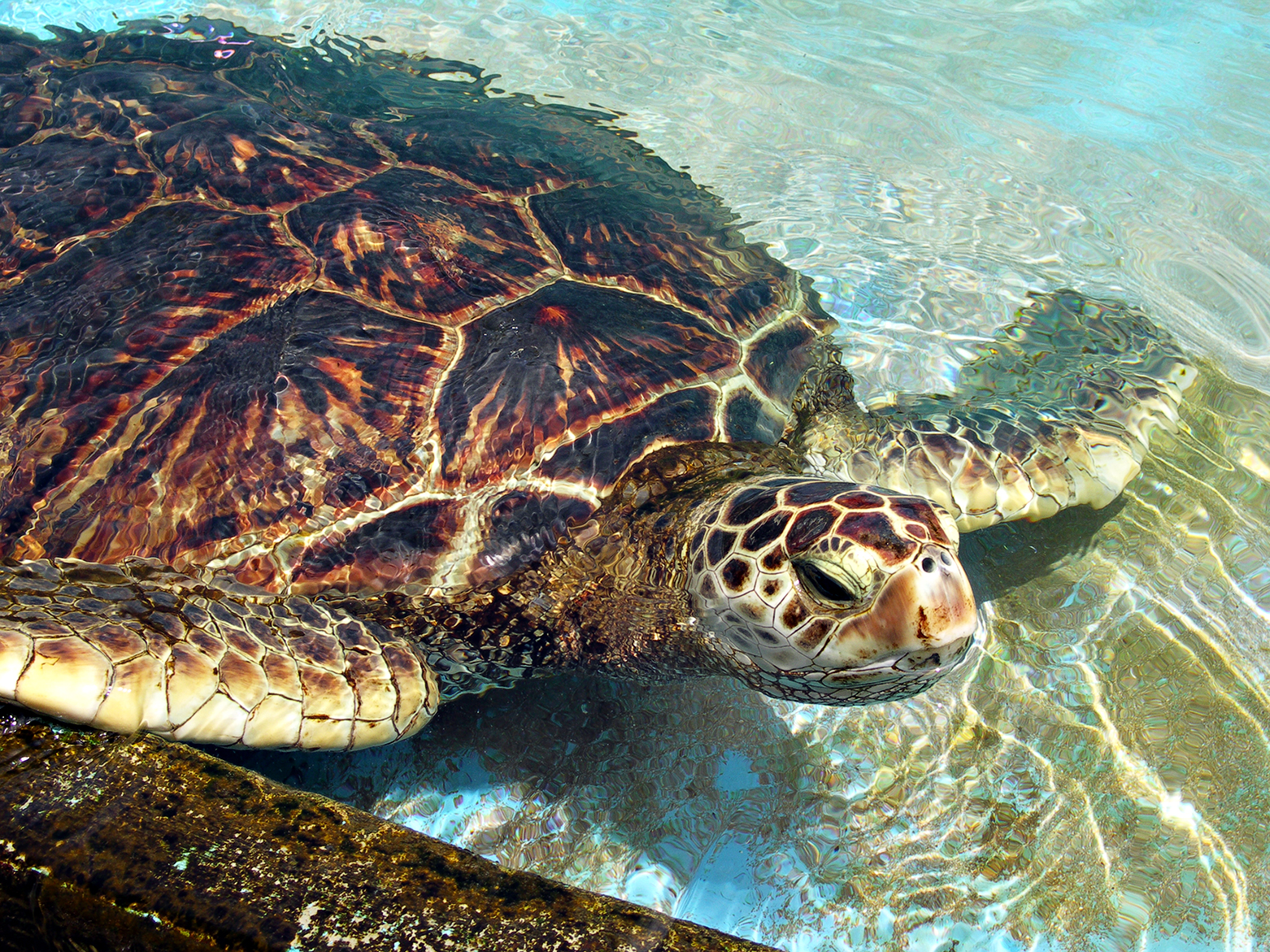 Hawaiian Green Sea Turtle